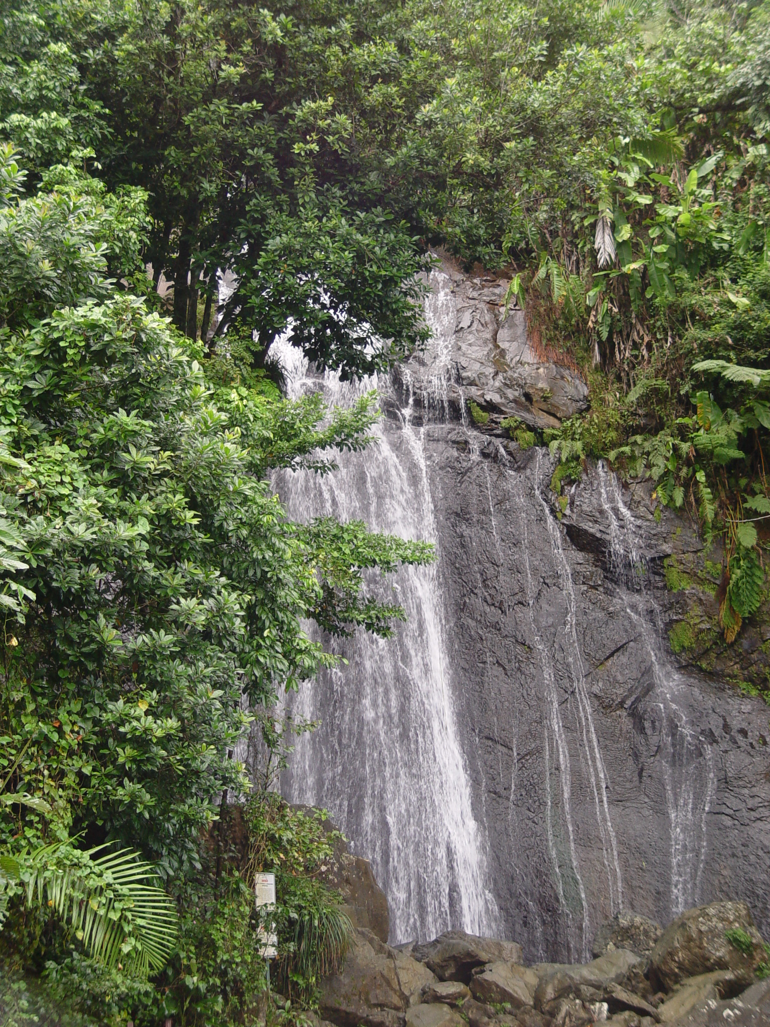 Yunque waterfall